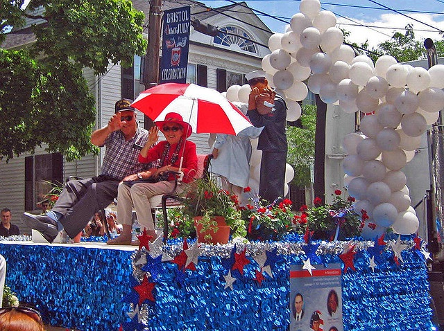 George Mendonça and Greta Friedman, guests of honor at the Bristol, Rhode Island, July 4 parade in 2009.